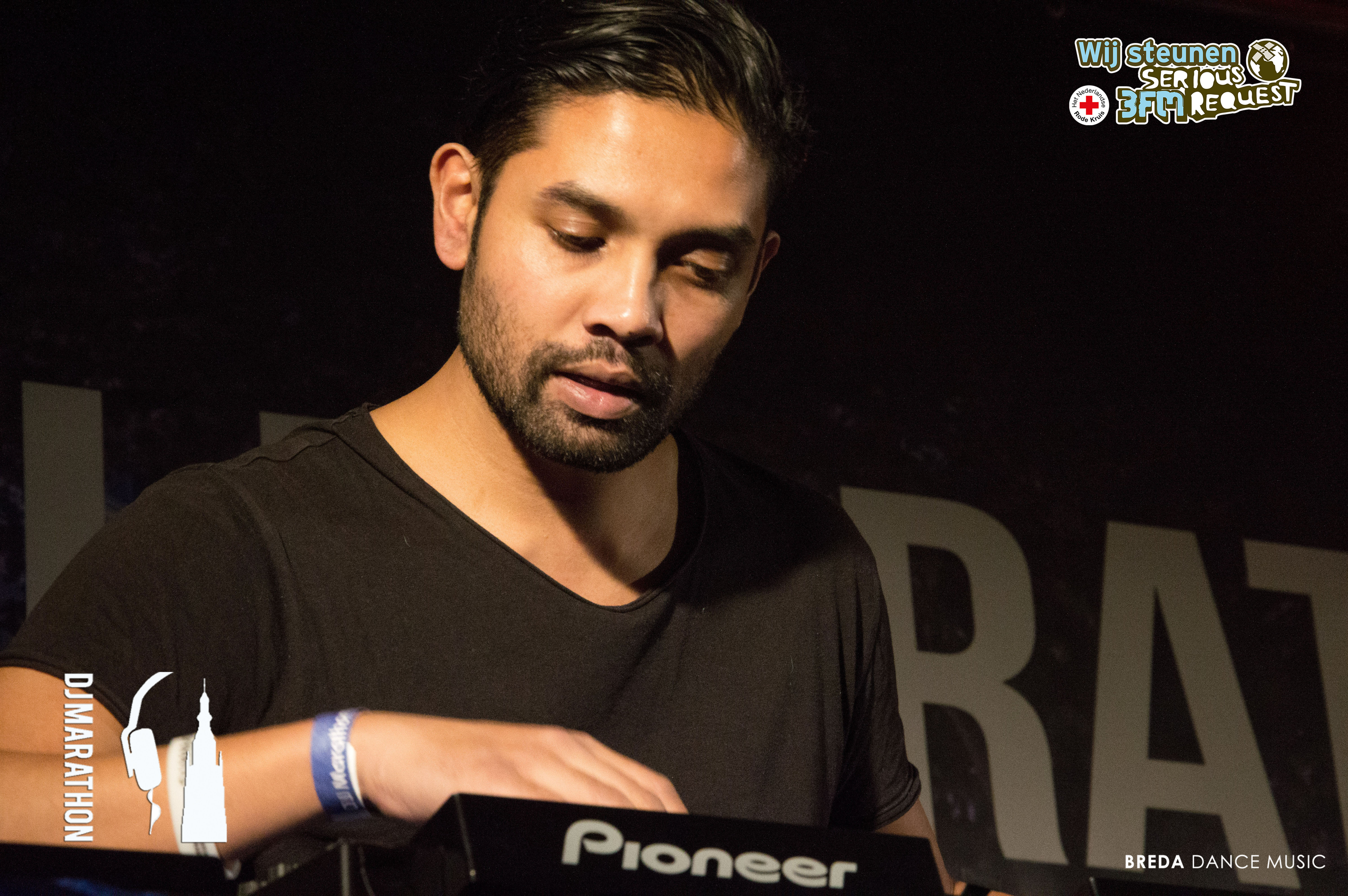 Kill the Buzz playing live at DJ Marathon for 3FM Serious Request 2016